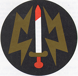 9 Infantry Division logo